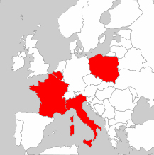 Effortel platform integration with operators in Europe